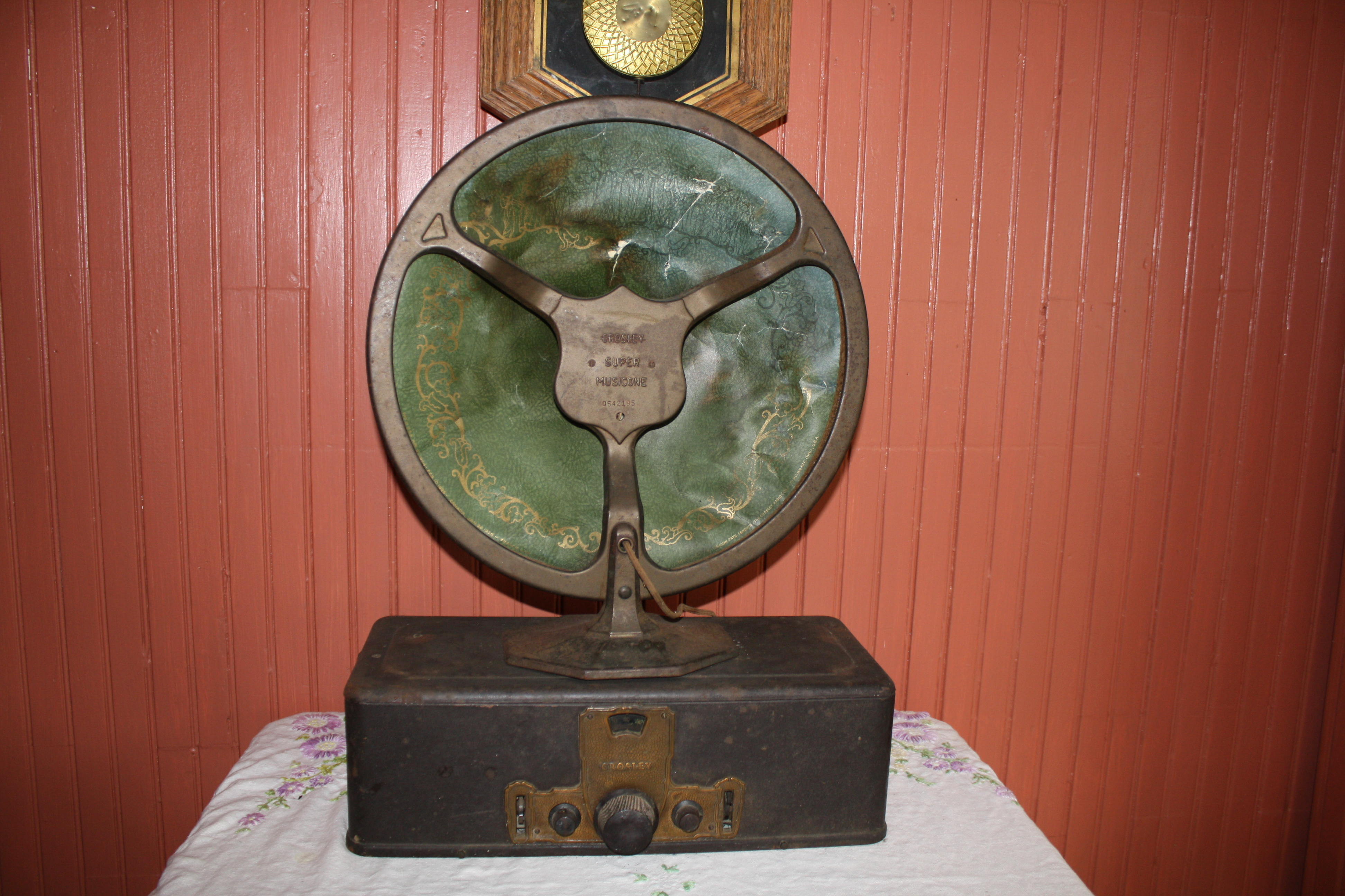 A Crosley Broadcasting Corporation Super Musicone speaker displayed at the IXL Museum.